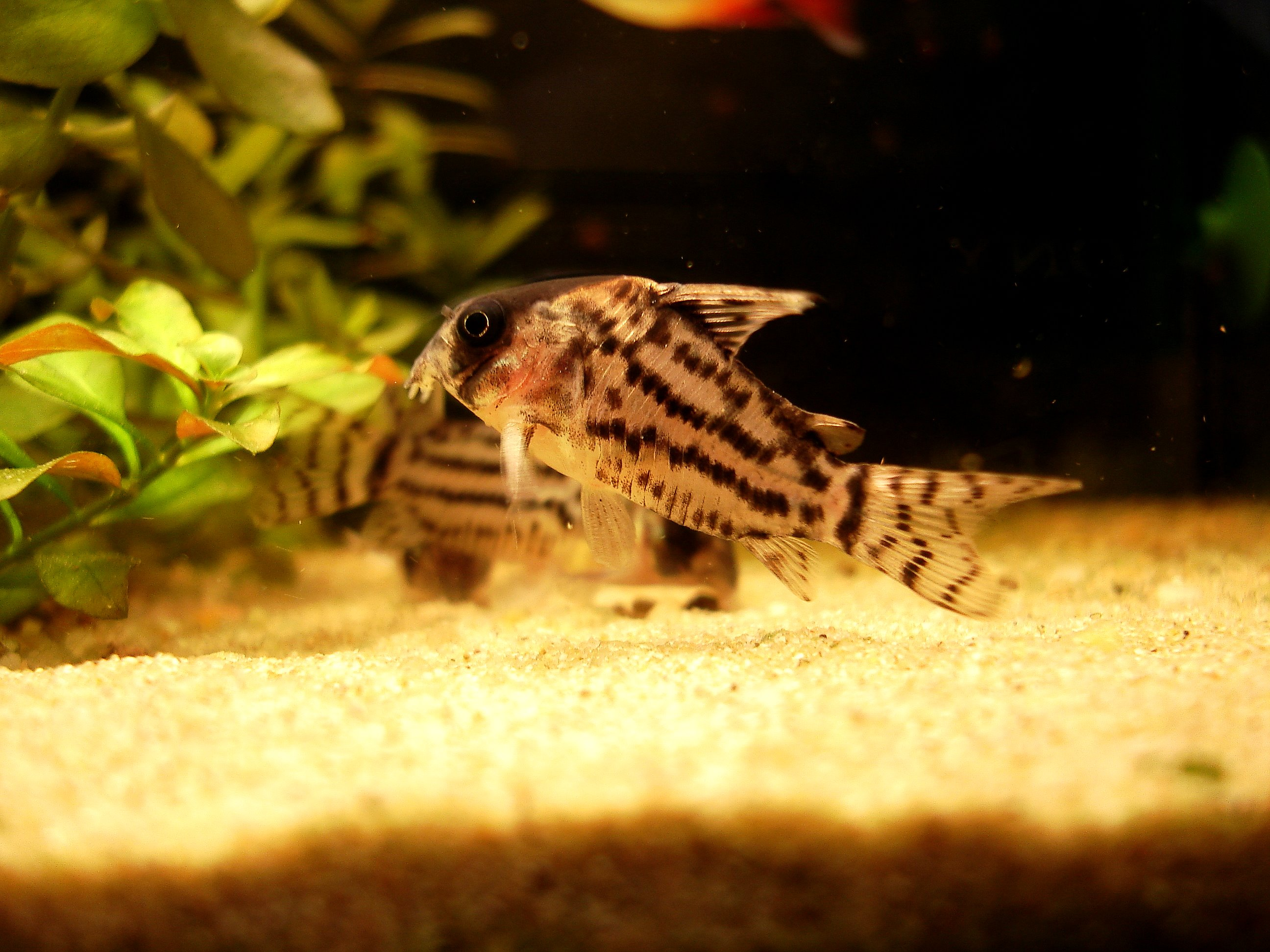 corydoras schwartzi